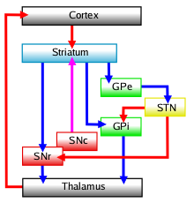 Classic connectivity diagram of the Basal Ganglia, showing glutamatergic pathways as red, dopaminergic as magenta and GABA pathways as blue.